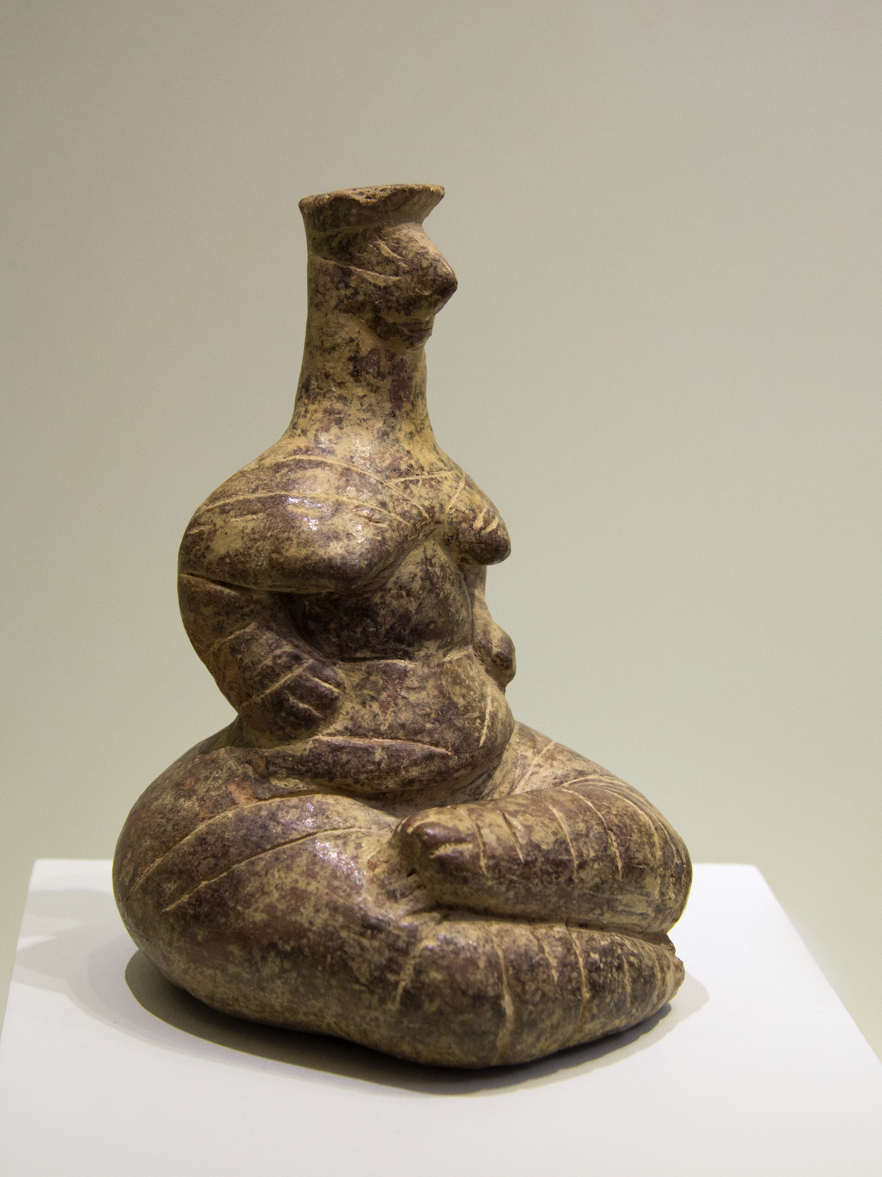 Steatopygous Goddess. Clay figurine of a squatting woman. Neolithic, 5300-3000 BC. Pano Chorio, Ierapetra region, Crete. Archaeological Museum of Heraklion, ex Giamalakis Collection.